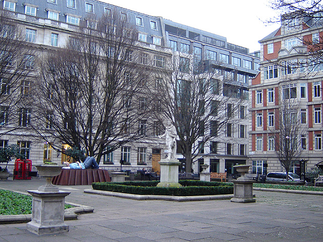 Golden Square, Soho, London. 14 January 2006. Photographer: Fin Fahey. (The statue in the middle ground is of George II. The sculpture of a reclining man in the background is a temporary installation: Catafalque by Sean Henry.)